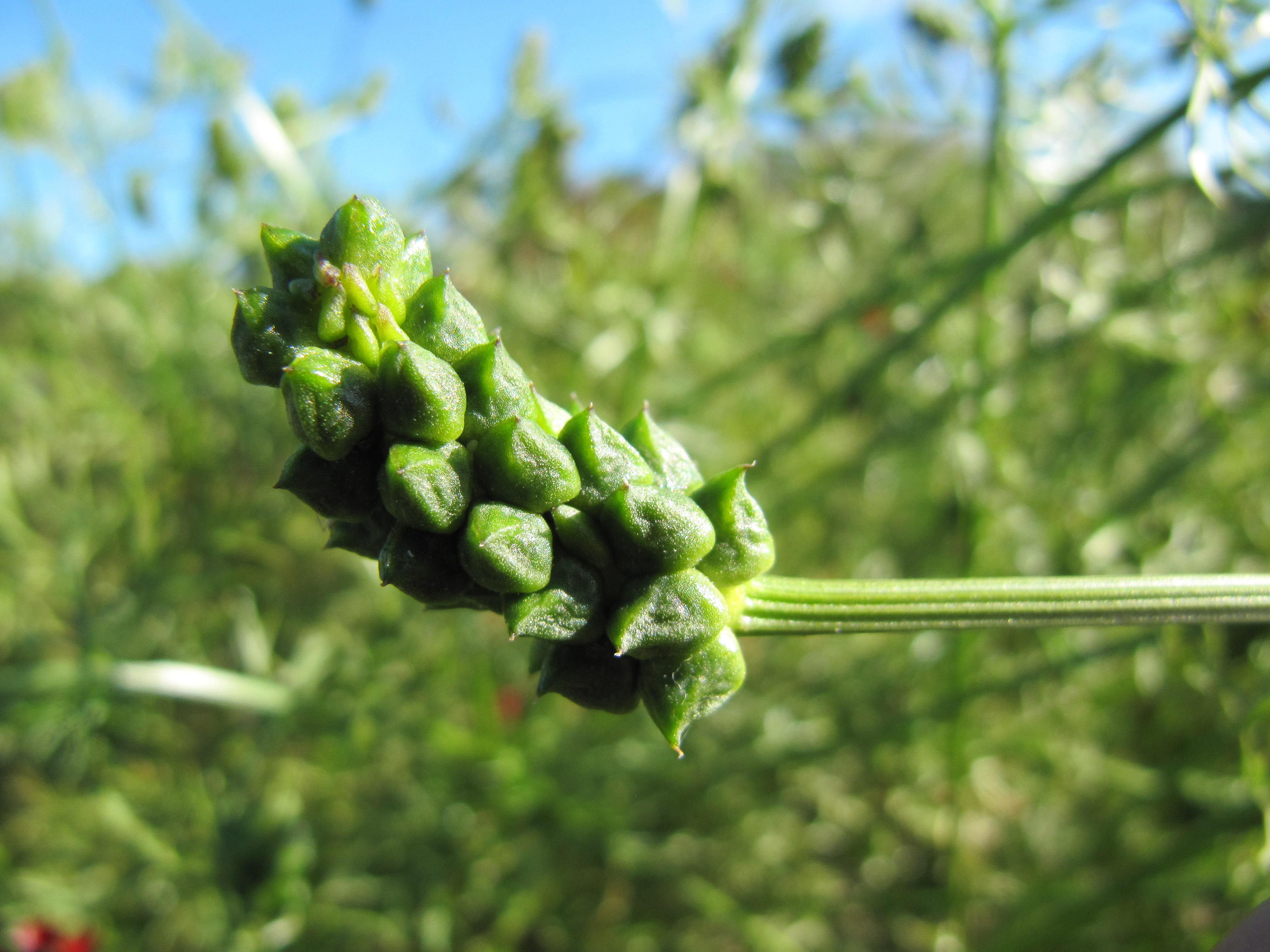 Adonis annua fruits